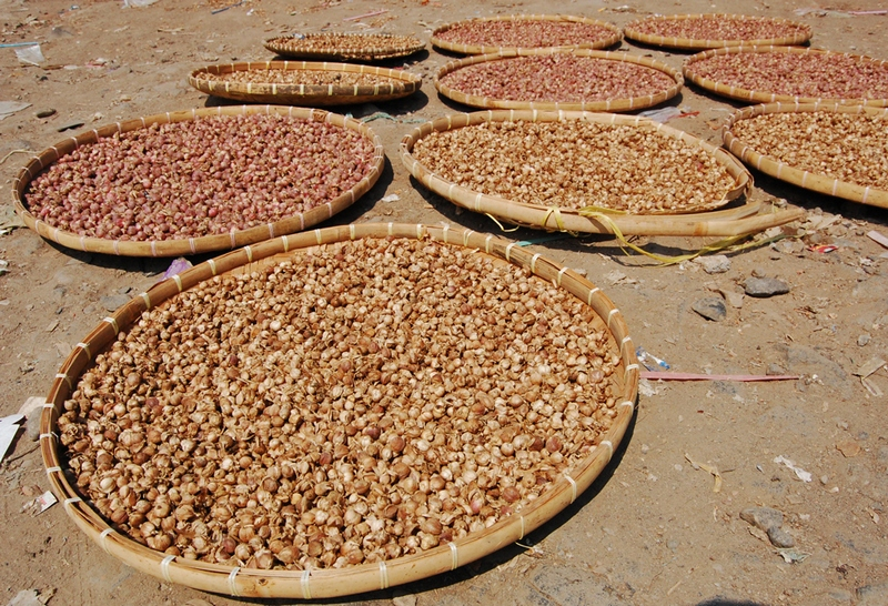 Drying Amomum compactum fruits. Palabuhanratu, Sukabumi, West Java, Indonesia.